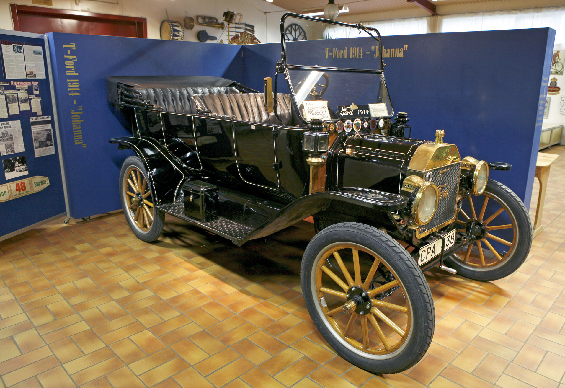 The car Johanna who has namned the museum Johannamuseet in Scania, Sweden.